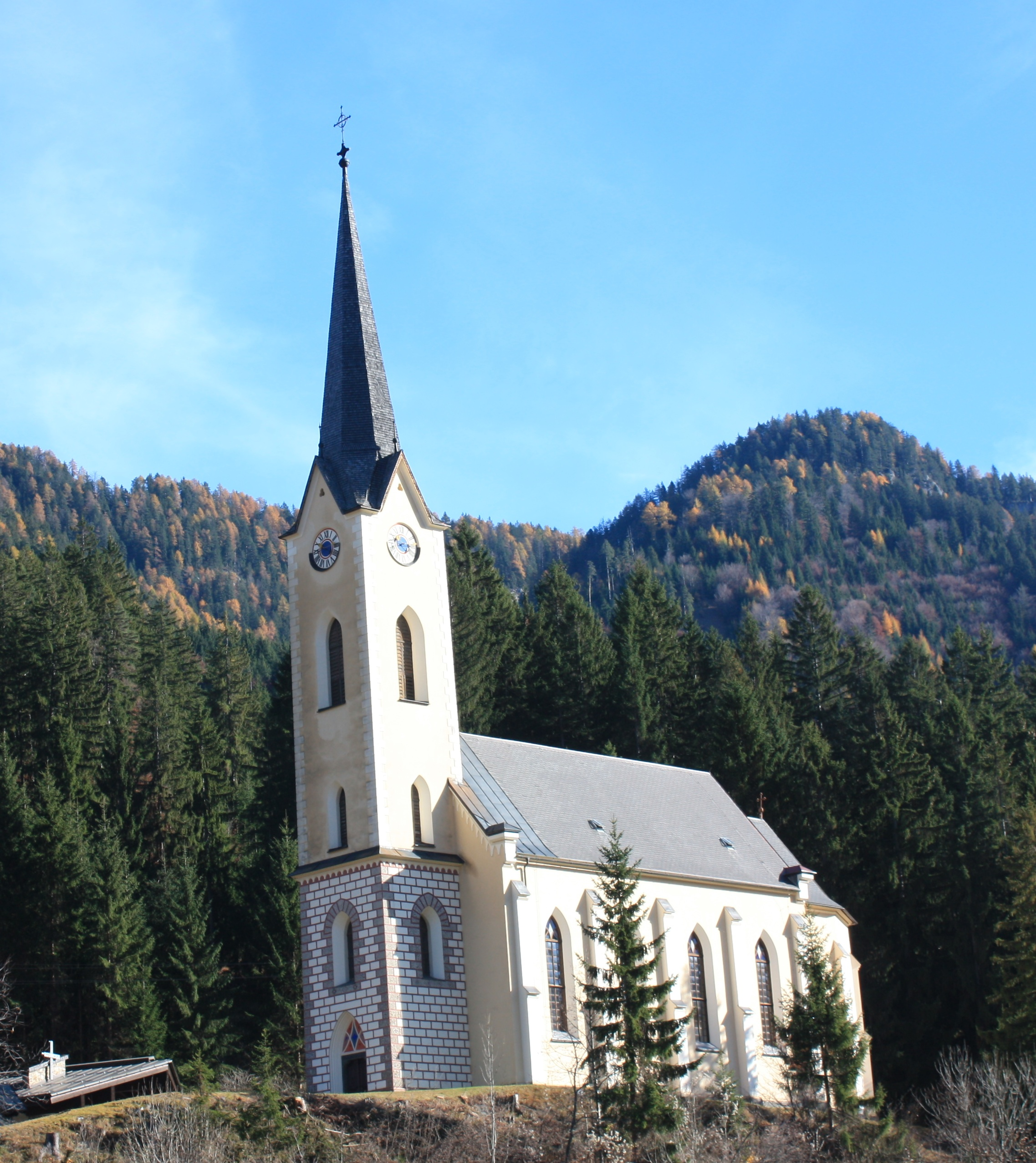 Lutherian church in the village Weißbriach in the community Gitschtal